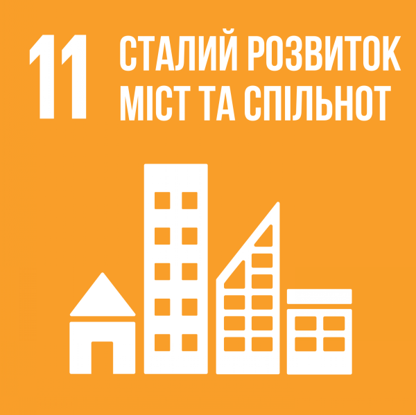 Sustainable Development Goals in UkrainianRomână: Obiectivul de dezvoltare durabilă nr. 11: Orașe și comunități durabile (în ucraineană)